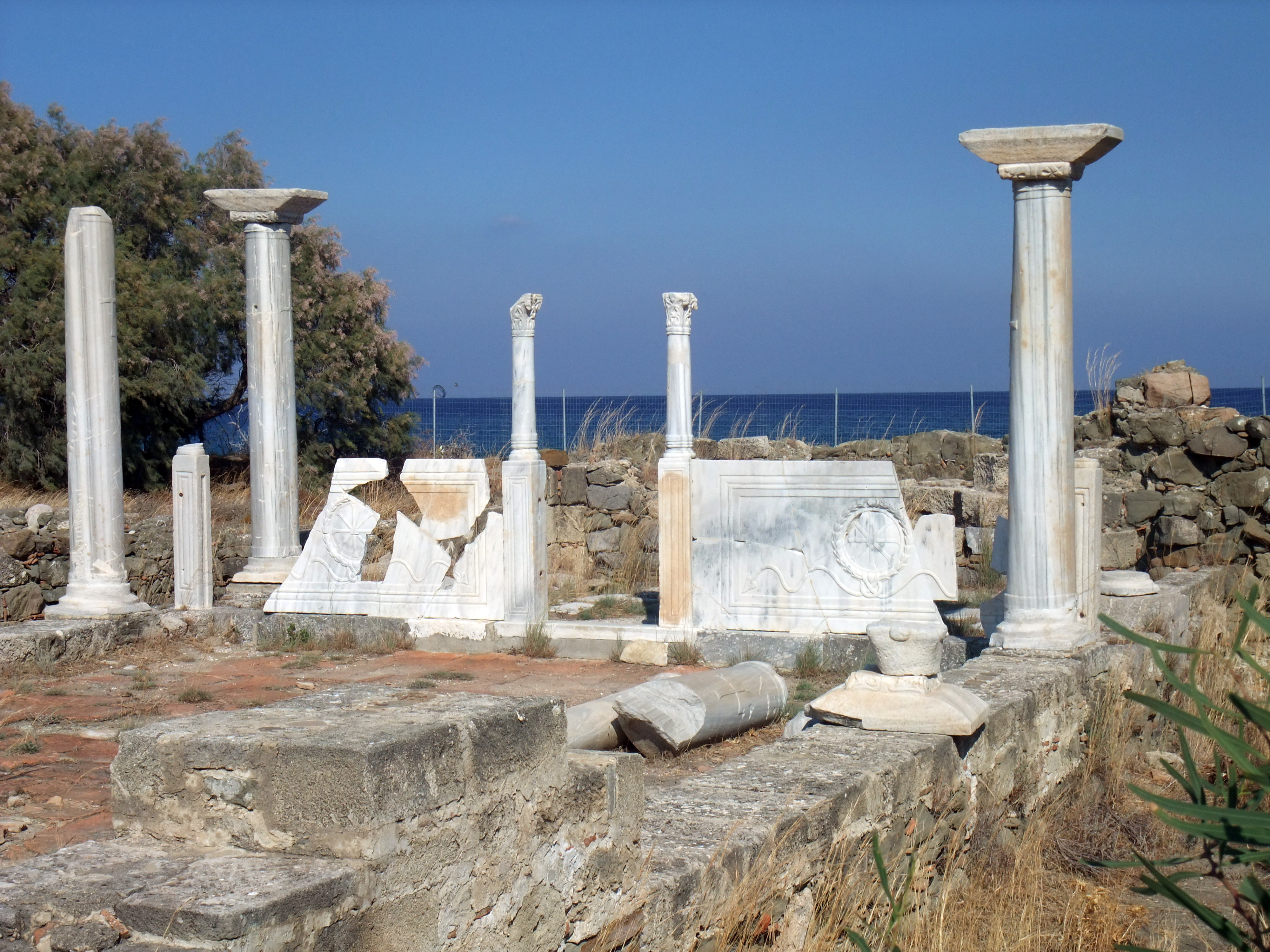 Basilika Agia Fotini in Pigadio (Karpathos)